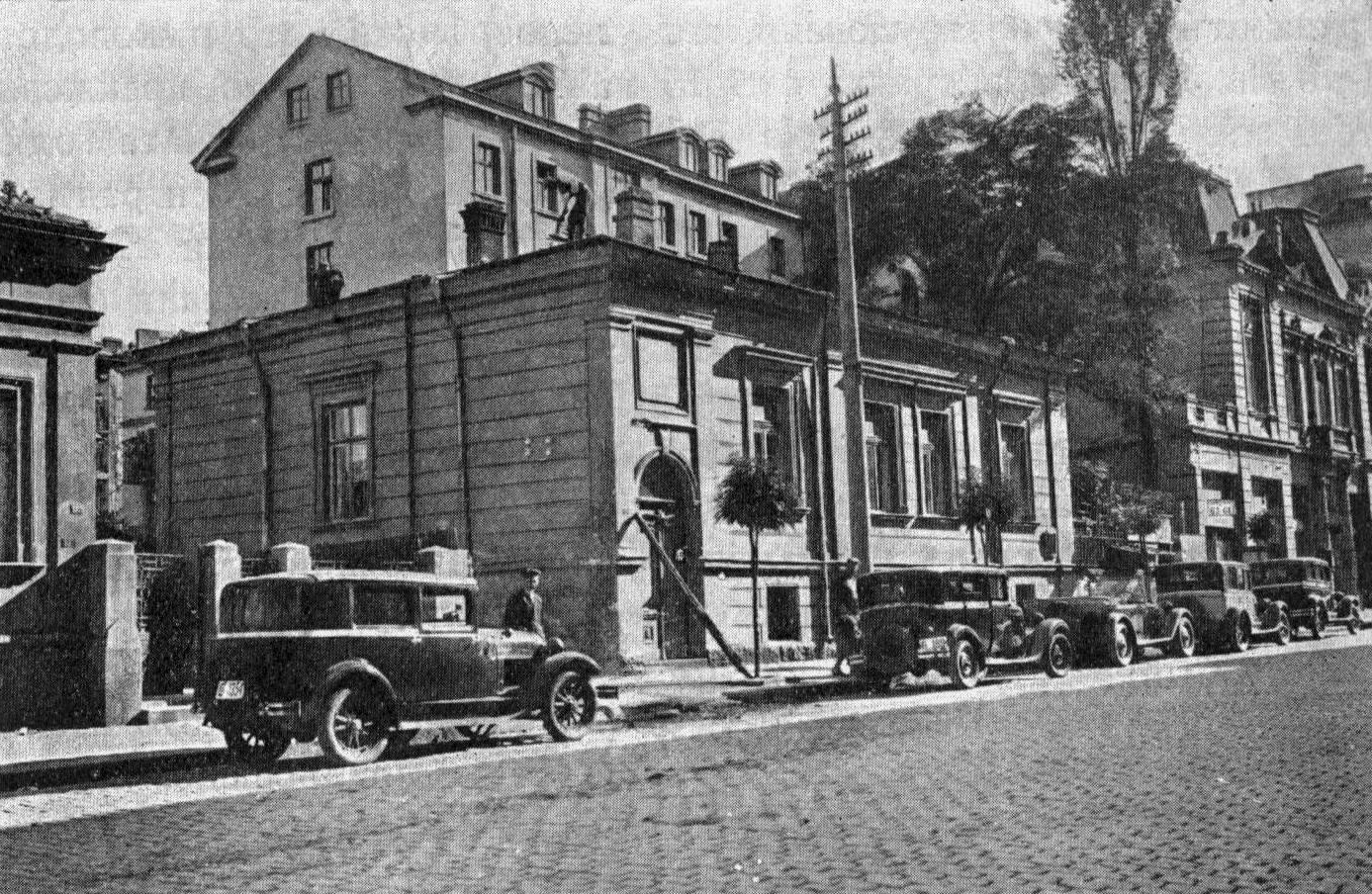 The old buiding of the Bulgarian Institute of Archaeology, on 139 Rakovska Street.